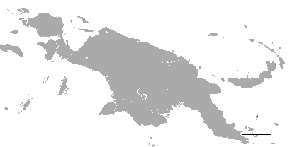 David's Spiny Bandicoot (Echymipera davidi) range